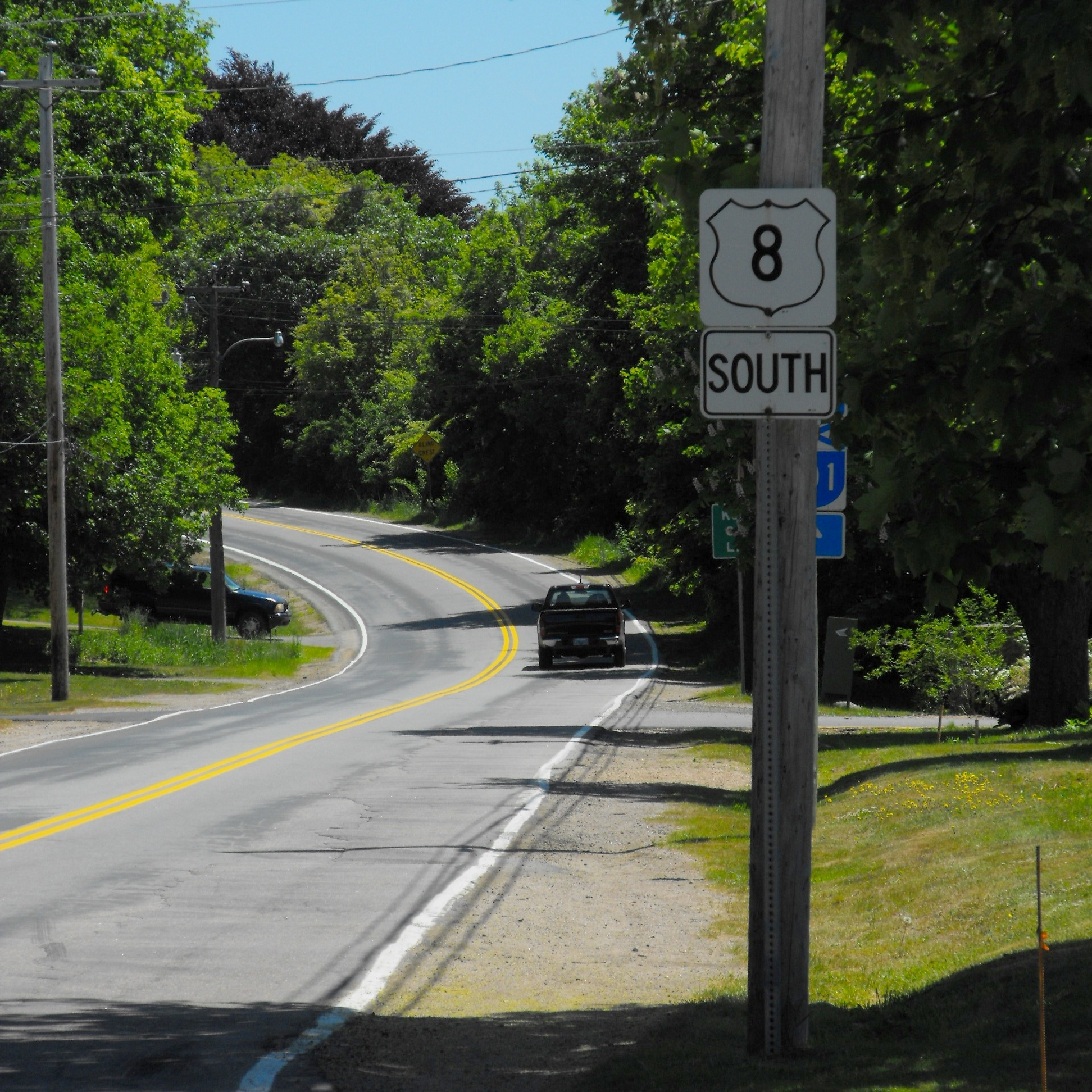 Road sign and road section - NS Route 8 outside Annapolis royal